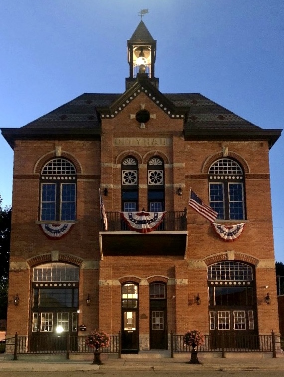 This is a photo of Camden's historic Town Hall and Opera House, one of the oldest buildings in town. It was once the hub of entertainment (concerts, shows and sporting events were held in the upstairs floor) and housed local government offices, the fire department and the town's jail on the lower floors. The renovated building again houses the village offices and the police department and jail, and the next phase of renovations will restore the upper floor for community events and activities.